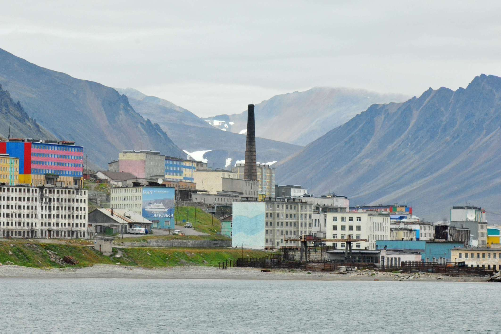 Provideniya, doorway (seaport) to the Russian Arctic (Chukotka, Russia; 64°25’30’’N, 173°13’30’’W)